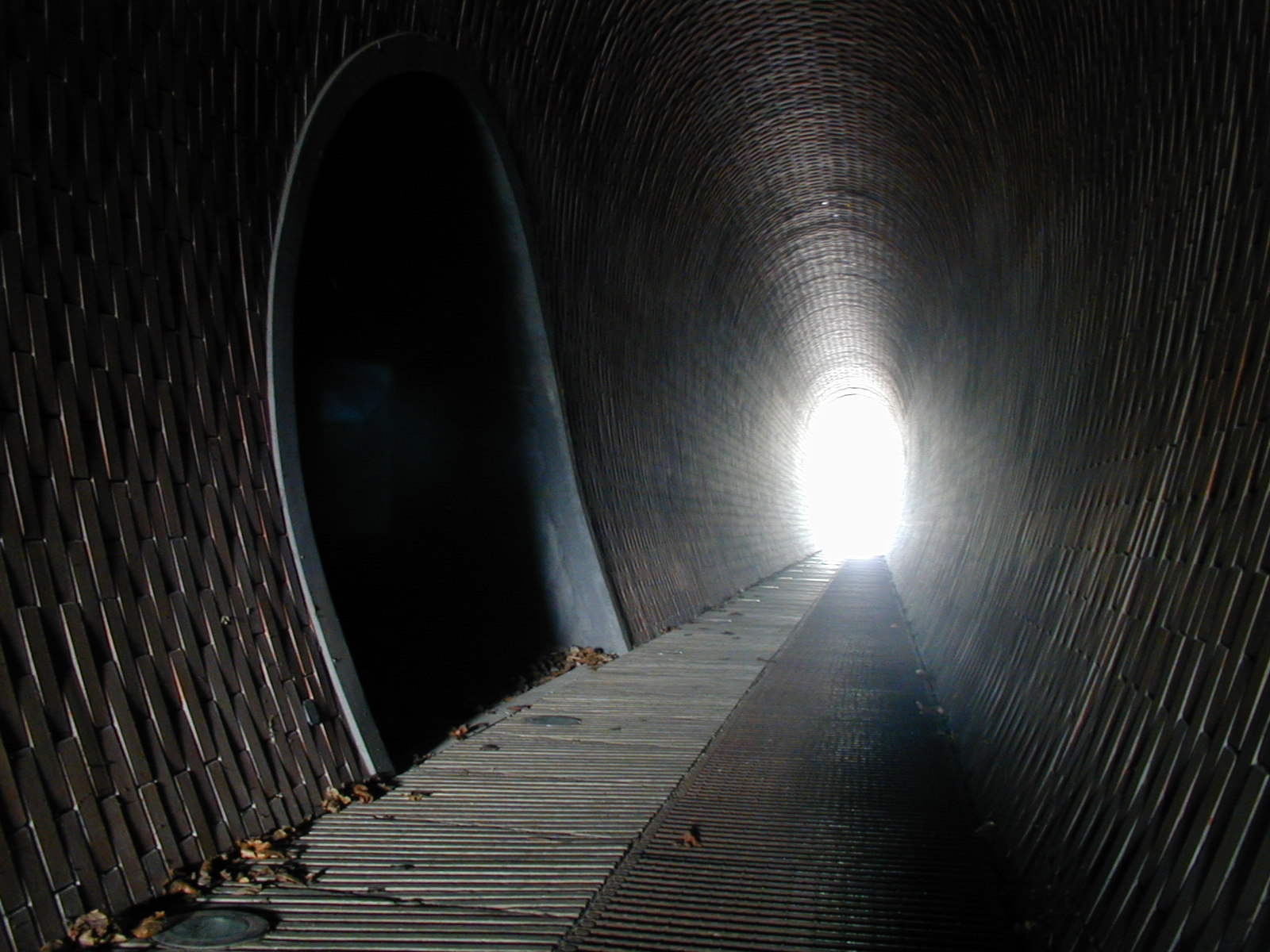 Tunnel under Prašný most at the Prague Castle, designed by Josef Pleskot